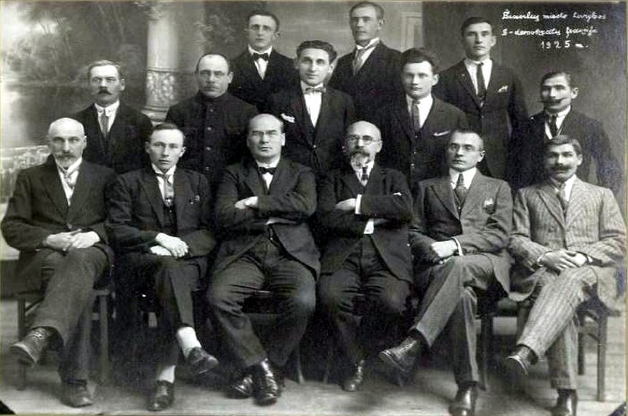 Socialdemocrats of Šiauliai city council in 1925, Lithuania (Museum Aušra)